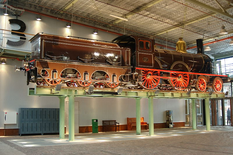 Preserved steamlocomotives NRS 107 in the Dutch Railwaymuseum in Utrecht.